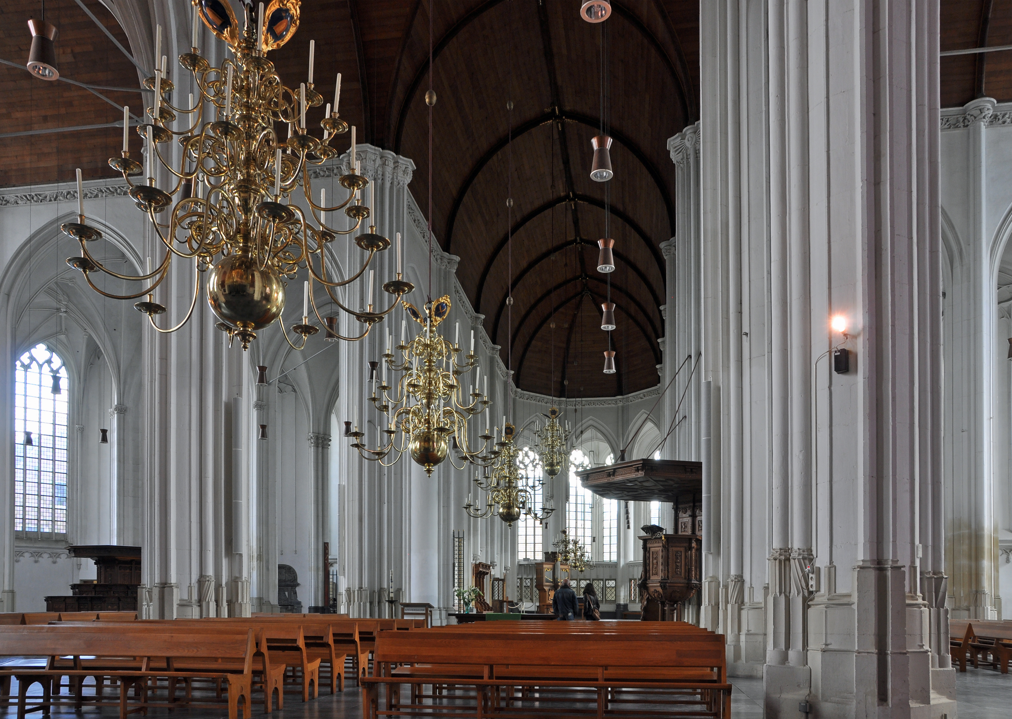 Nijmegen (the Netherlands): Sint-Stevenskerk (St Stephen's church) - interior